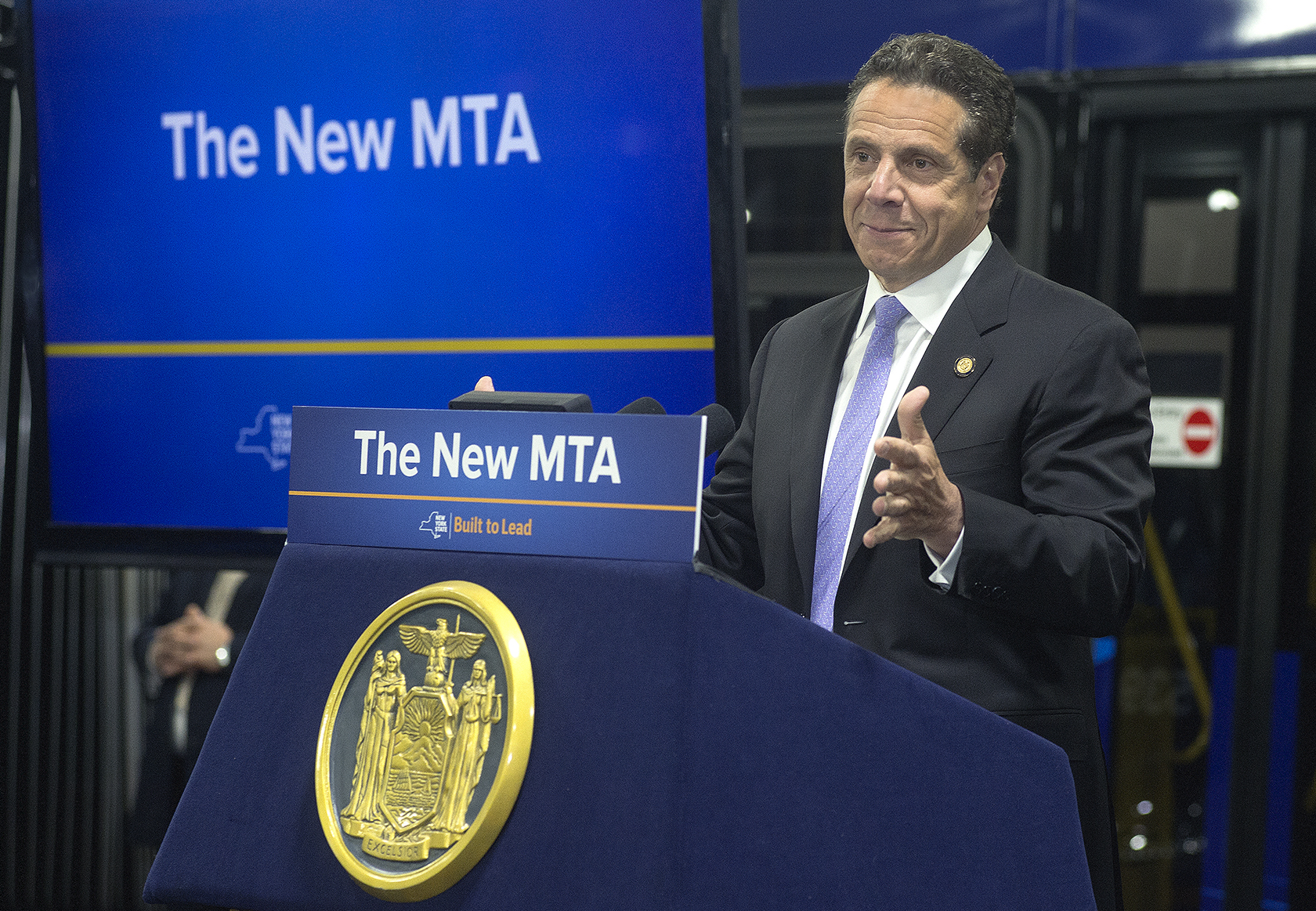 Governor Cuomo joined MTA Chairman Tom Prendergast to announce the arrival of the first of 75 new buses that are being deployed into service this year as part of a concentrated effort to address overcrowding and modernize the MTA. In March, the Governor announced the addition of 2,042 buses, equipped with Wi-Fi and USB charging ports. Photo: Metropolitan Transportation Authority / Patrick Cashin